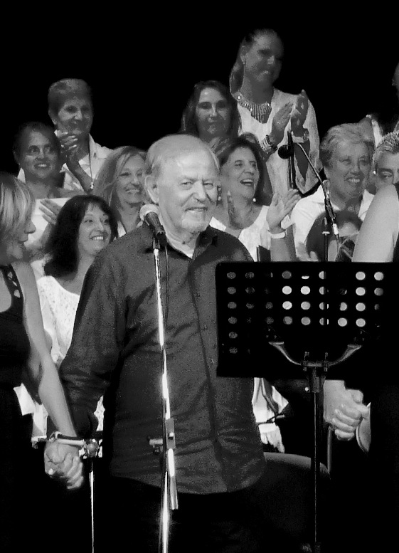 Yannis Spanos, Concert in Ermoupolis, Syra island, 2017-08-20